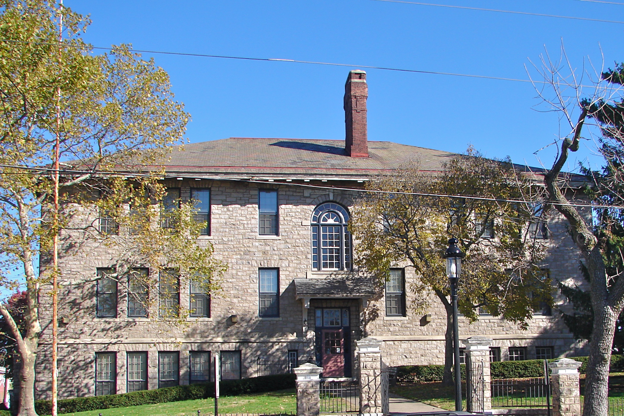 Jefferson Avenue School on the NRHP since July 18, 1985. At Jefferson Avenue and Pond Street in Bristol, bucks county, Pennsylvania. About 1986 the school was renovated and became apartments or condos.